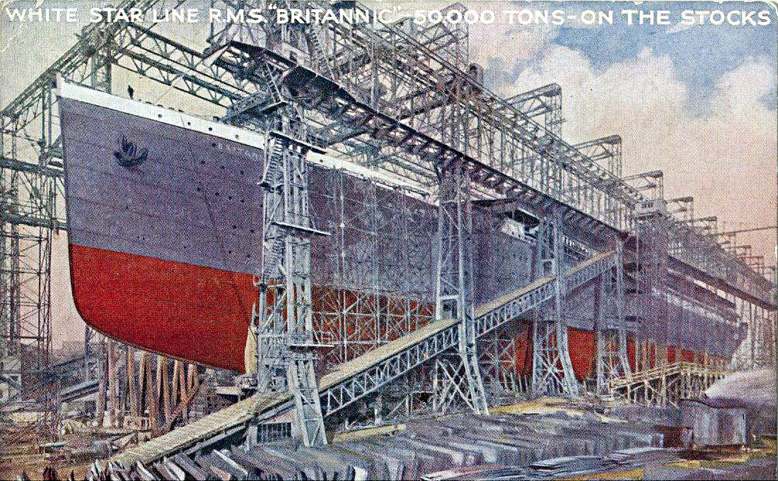 Postcard of the Britannic before her launch. Source: The Maritime Digital Archive Encyclopedia there is stated to use the GNU Free Documentation License. It is also stated that this image is allowed for anyone to use it for any purpose including unrestricted redistribution, commercial use, and modification. This photo was taken prior to 1940, and it possibly already in the public domain.